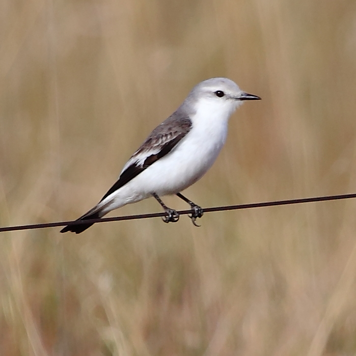 White-rumped Monjita at Chapada dos Veadeiros - GO - Brazil